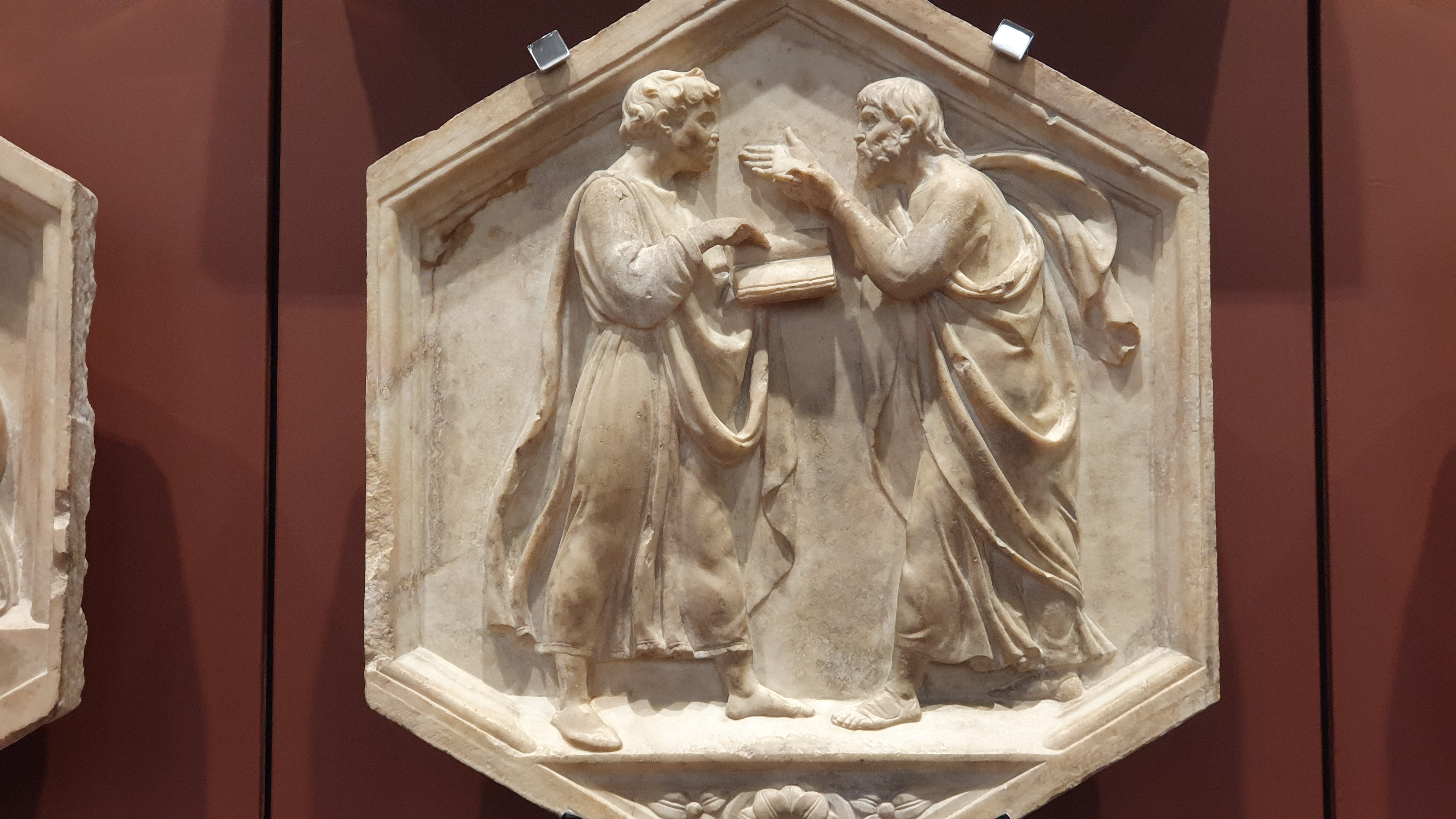 Plato and Aristotle: dialectics by Luca della Robbia